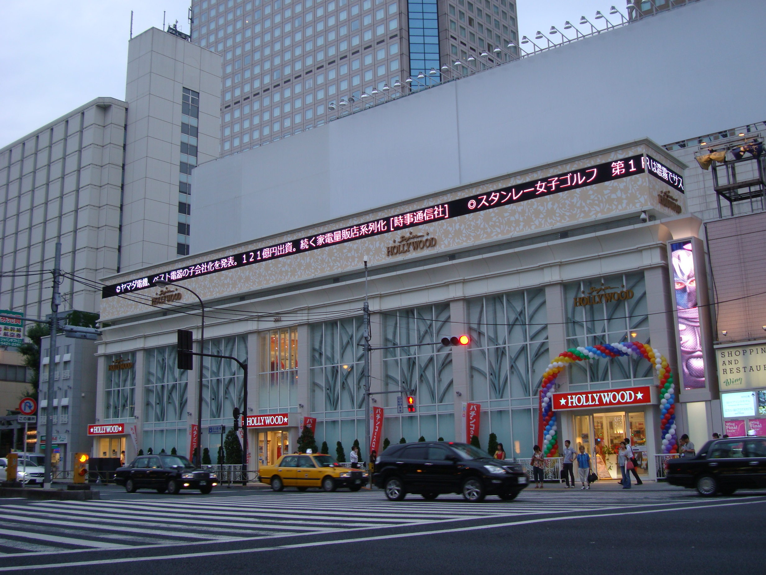 Pachinko Hollywood at Shinagawa Station, Takanawa, Minato city, Tokyo